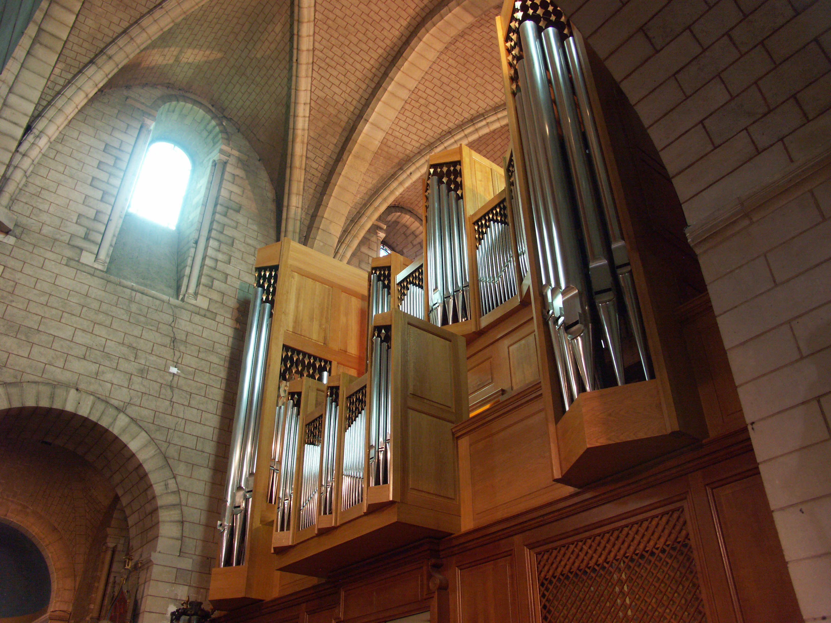 Kern Grand Organ, Notre-Dame de Bonne Garde Basilica, Longpont sur Orge, Essonne, France